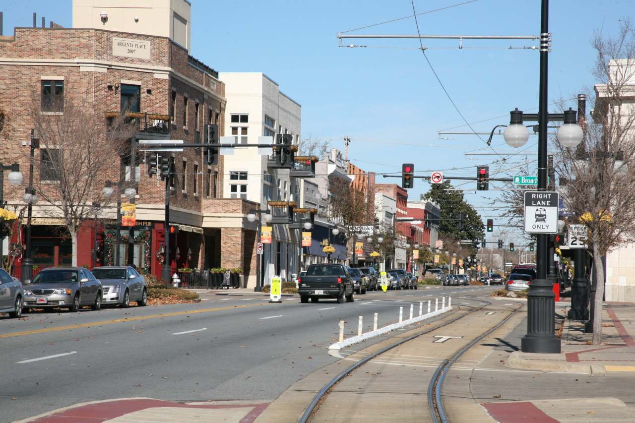 Downtown North Little Rock, Arkansas